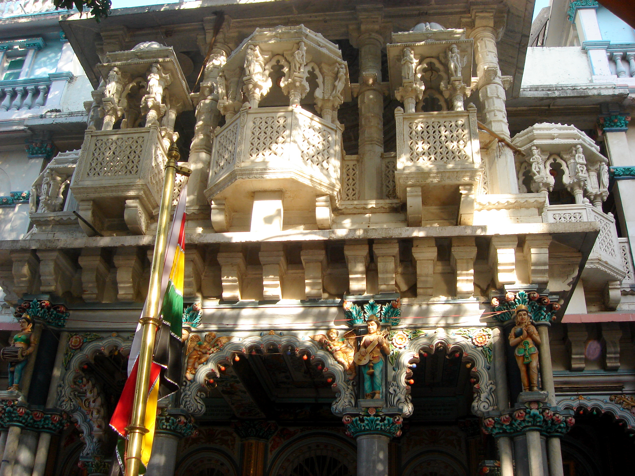 Jain temple in bombay